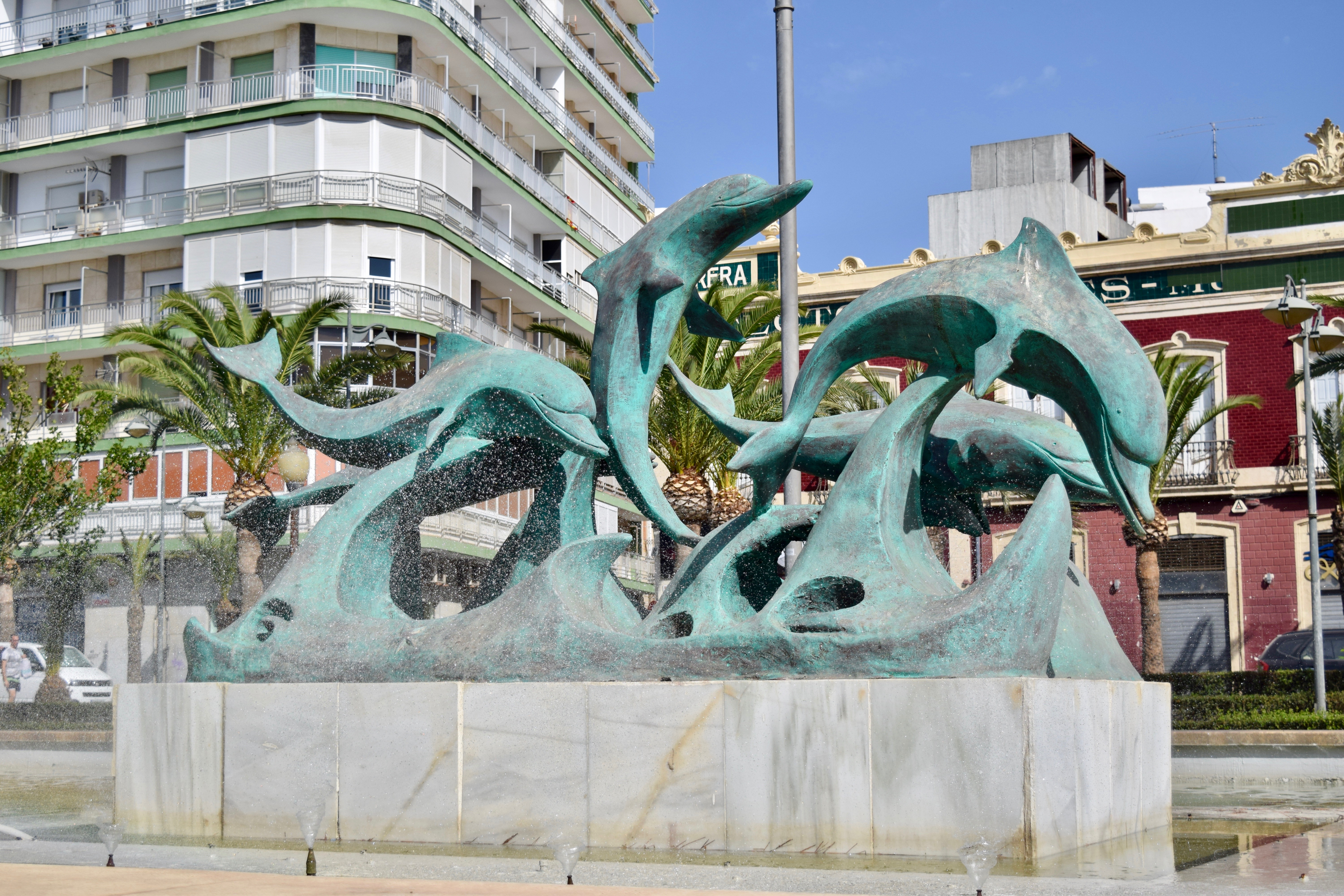 Fuente de los delfines en el parque Nicolás Salmerón (Almería)